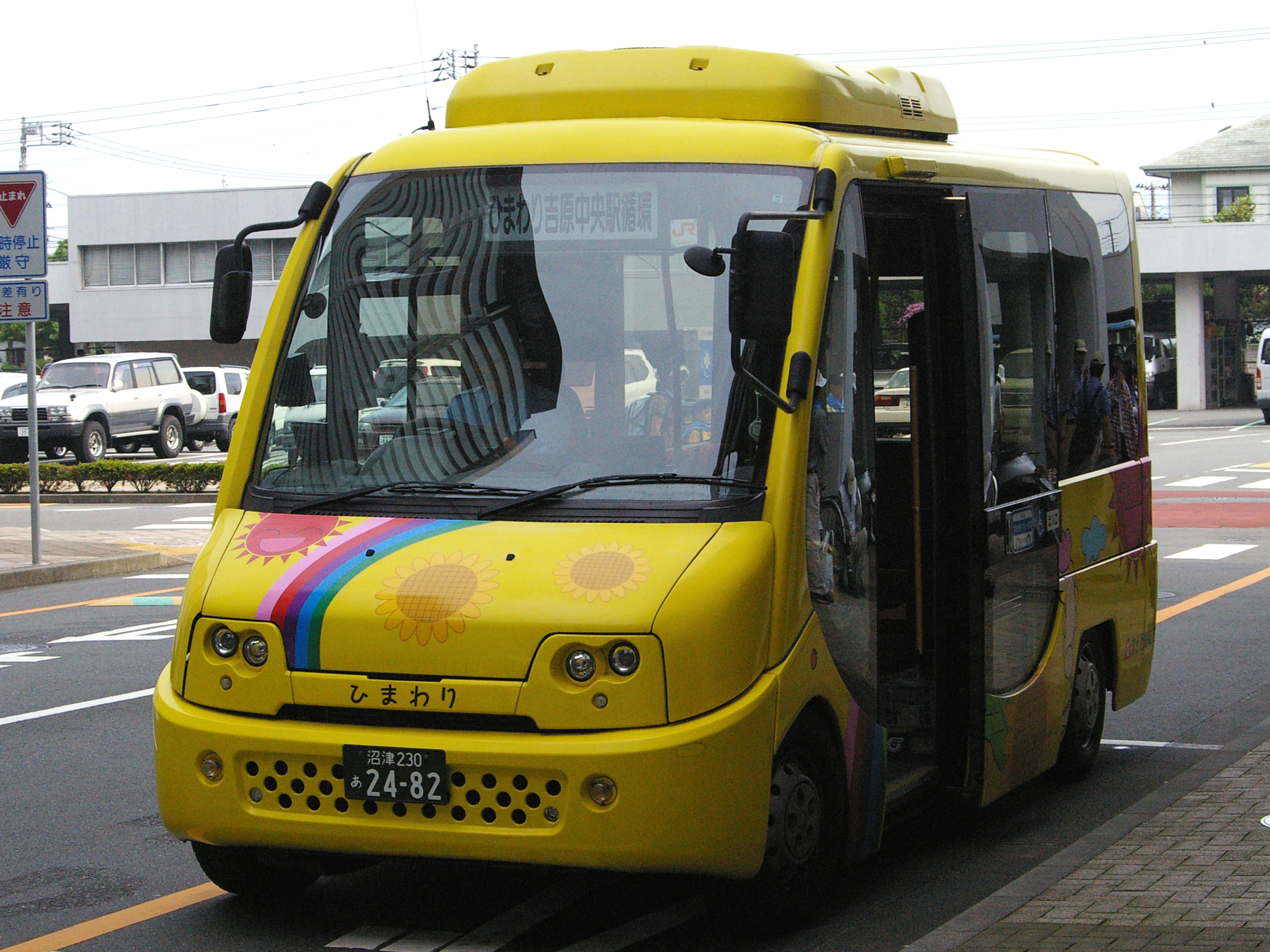 Fuji City Community Bus Himawari operated by Fujikyu Shizuoka Bus